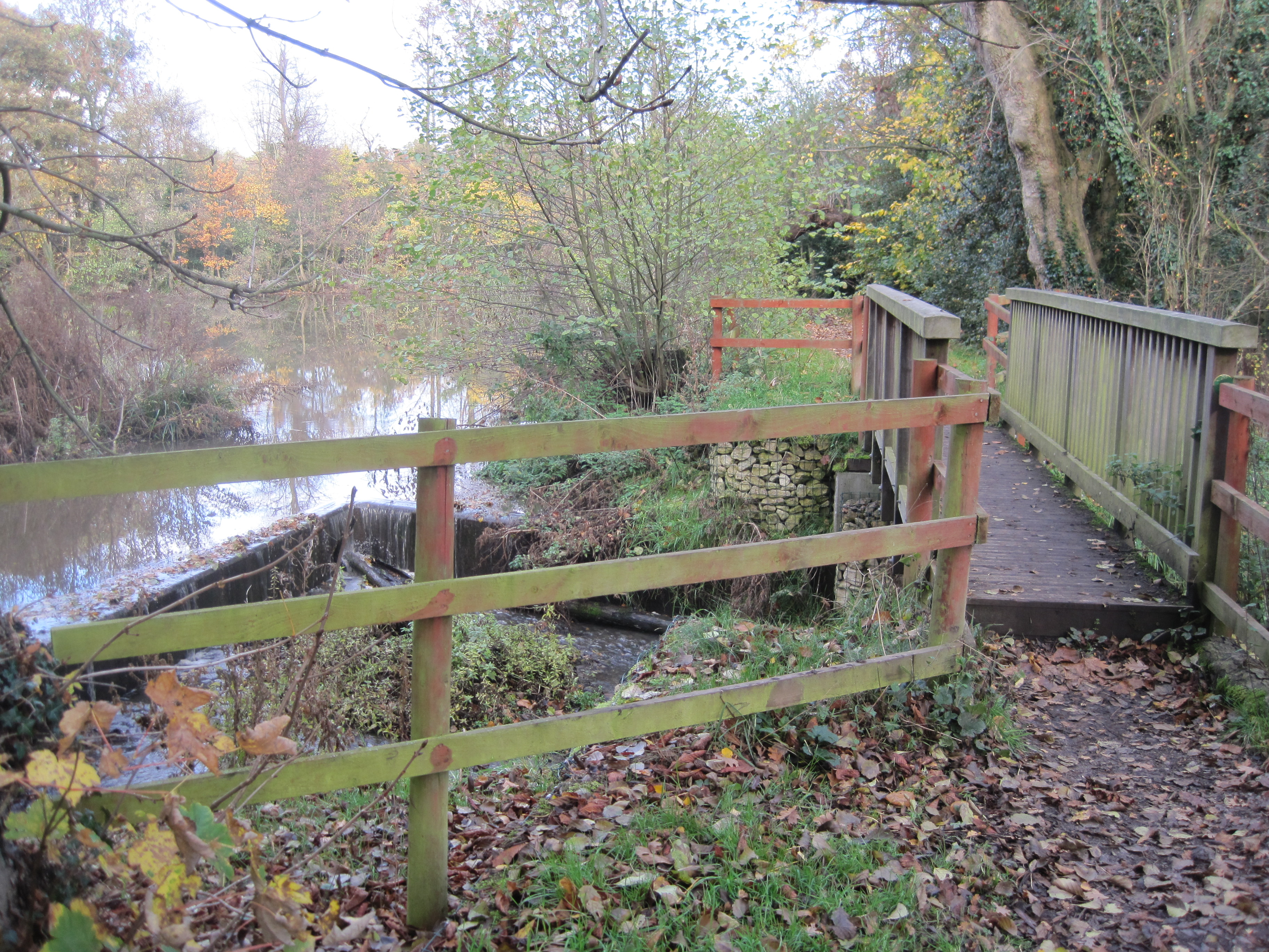 Dam and bridge in Darland's Lake nature reserve, Totteridge, Barnet, London